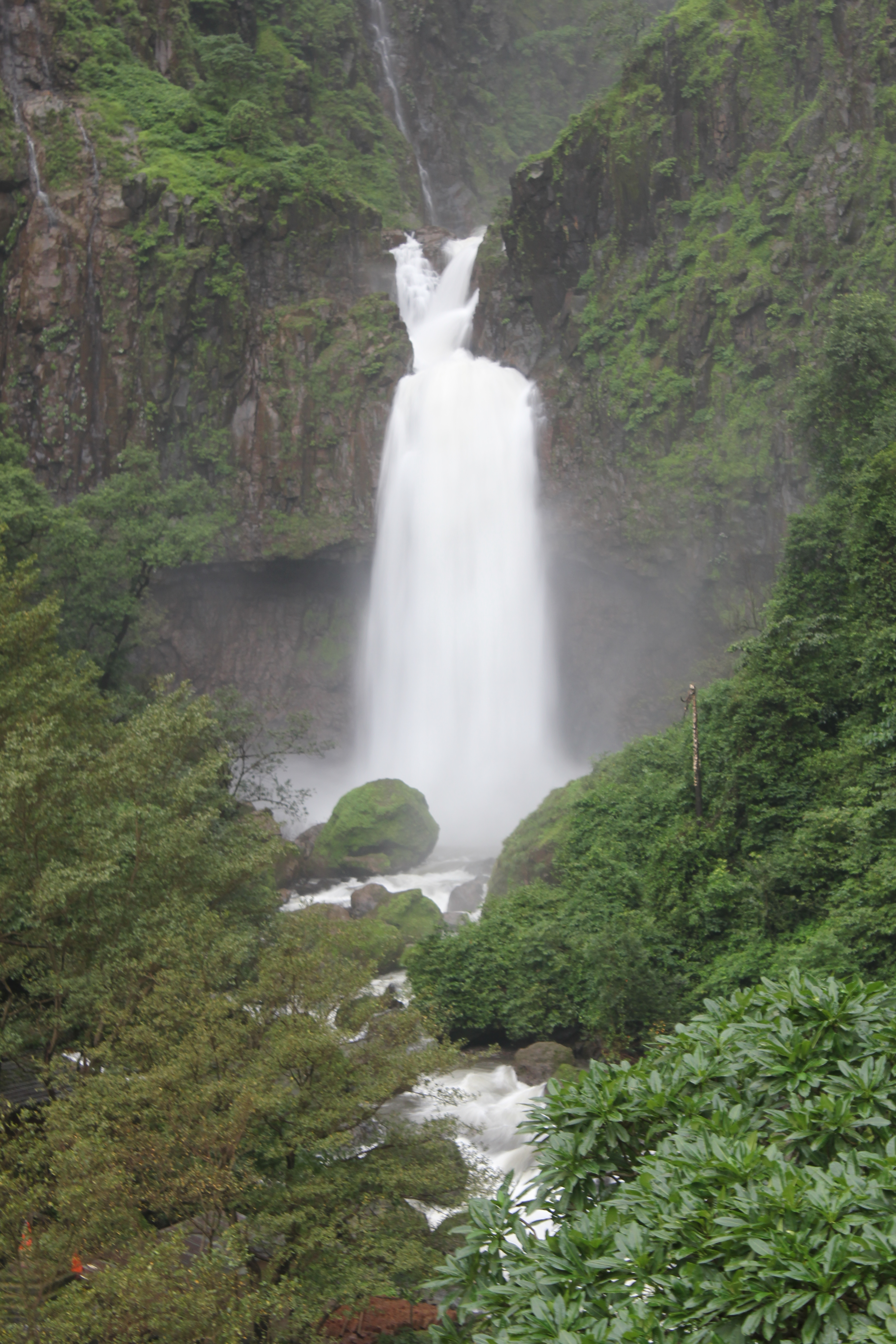 A Closup view of the Marleshwar Waterfall